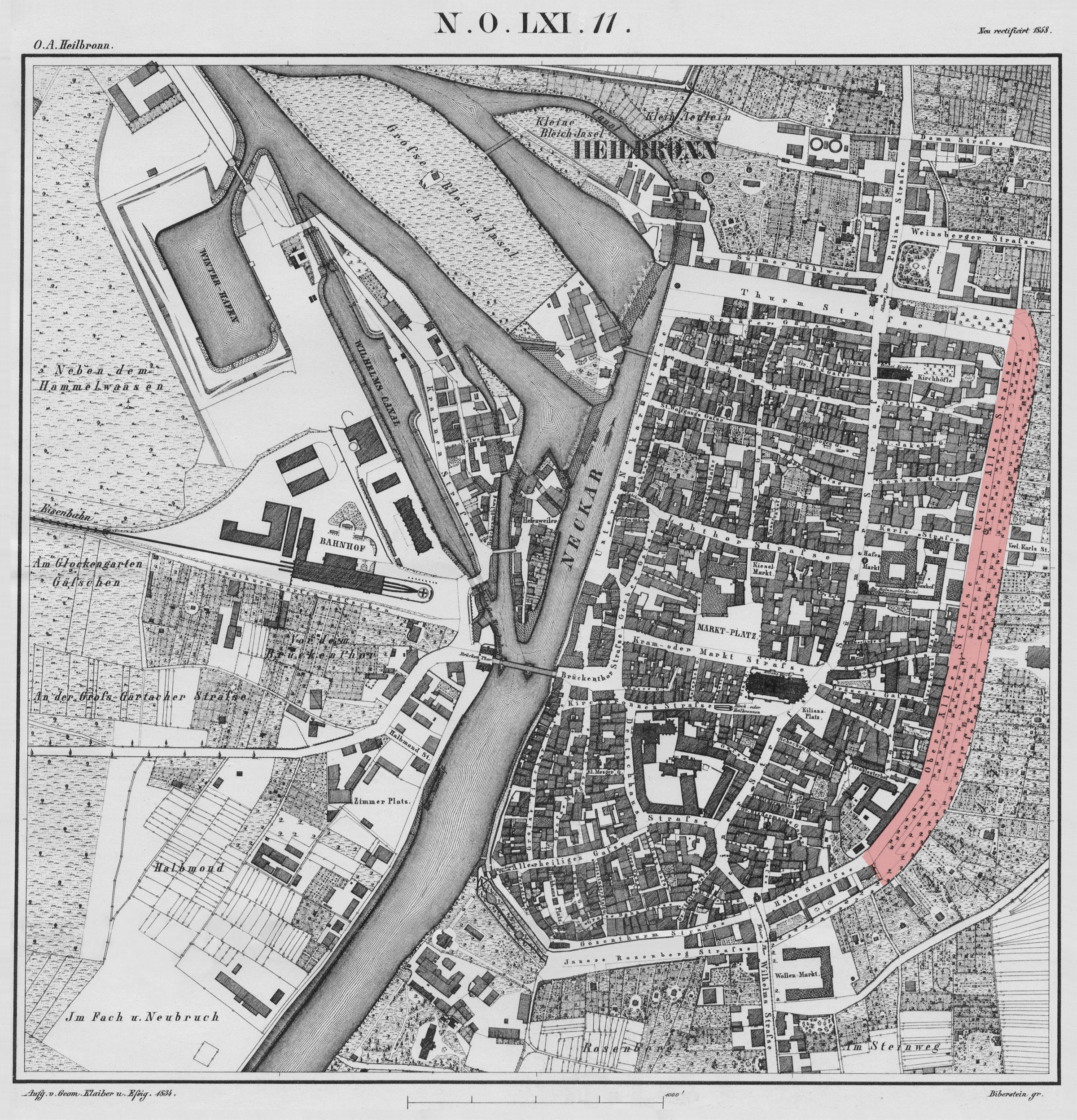 Map of Heilbronn from 1858 with the Allee marked red